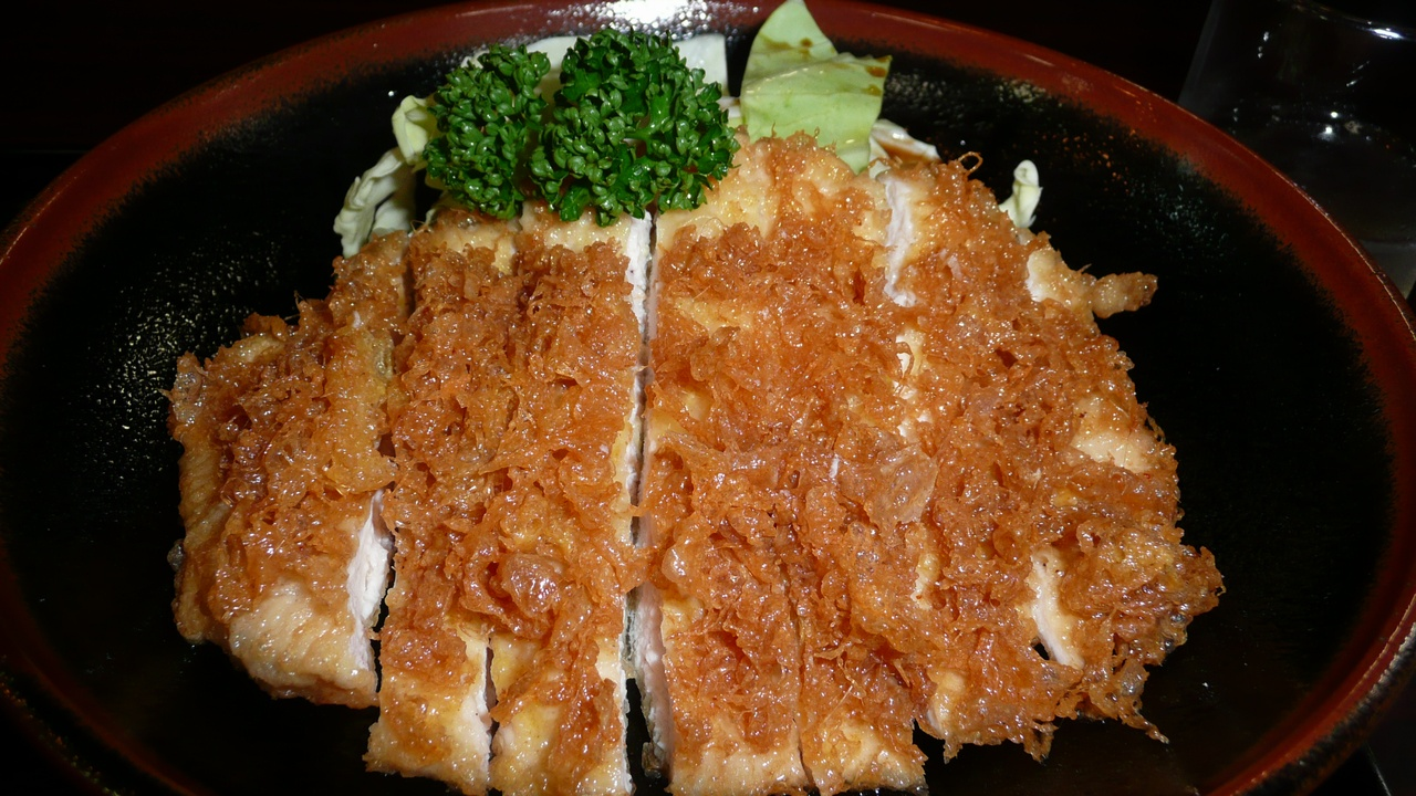 Chicken nanban Original Version (Nao-chan, Nobeoka, Miyazaki, Japan)